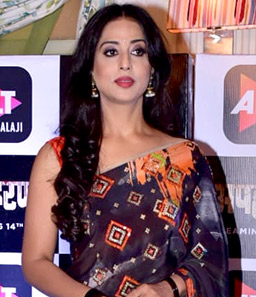 Mahi Gill graces the trailer launch of Alt Balaji’s Apaharan